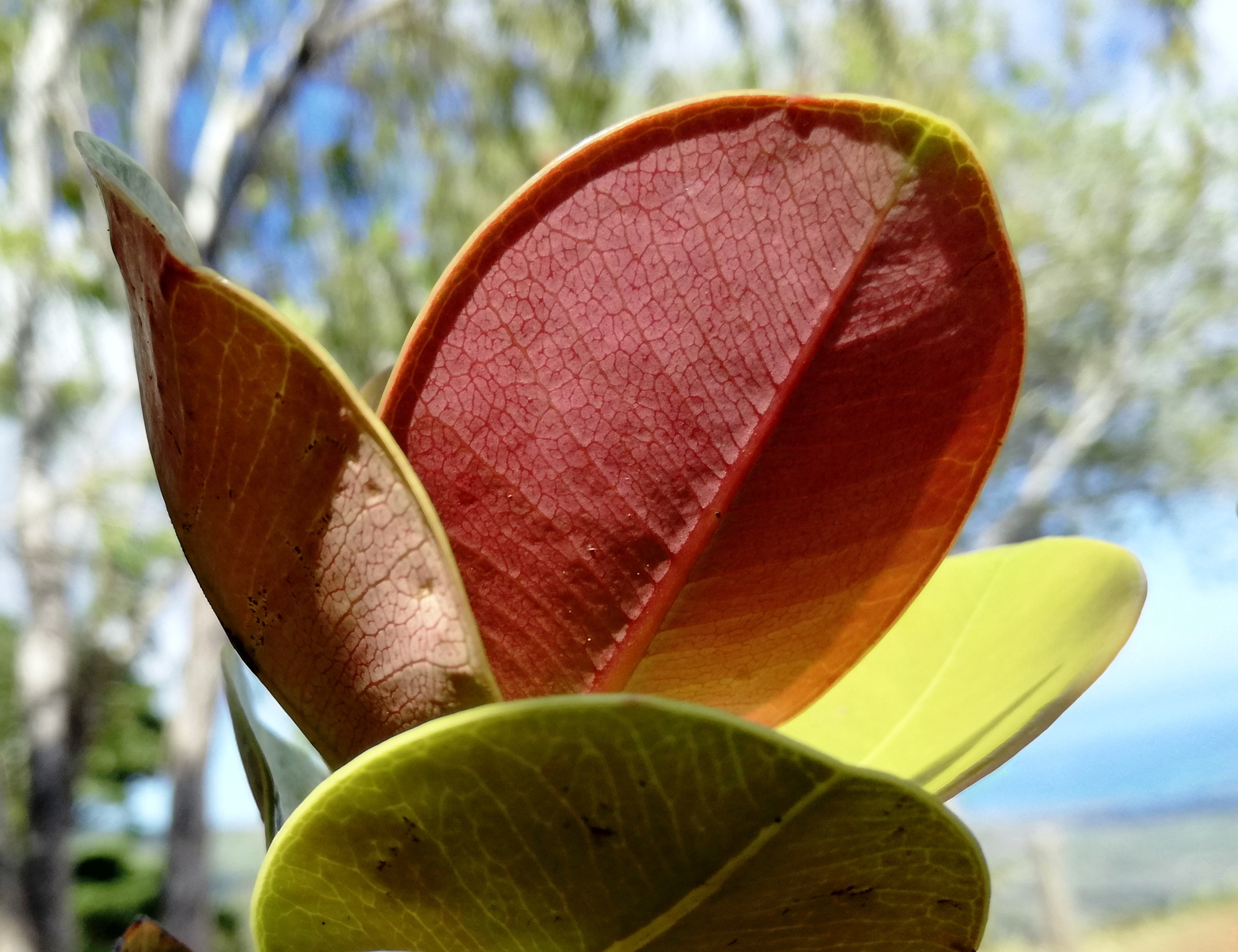 Diospyros revaughanii -Black River Gorges